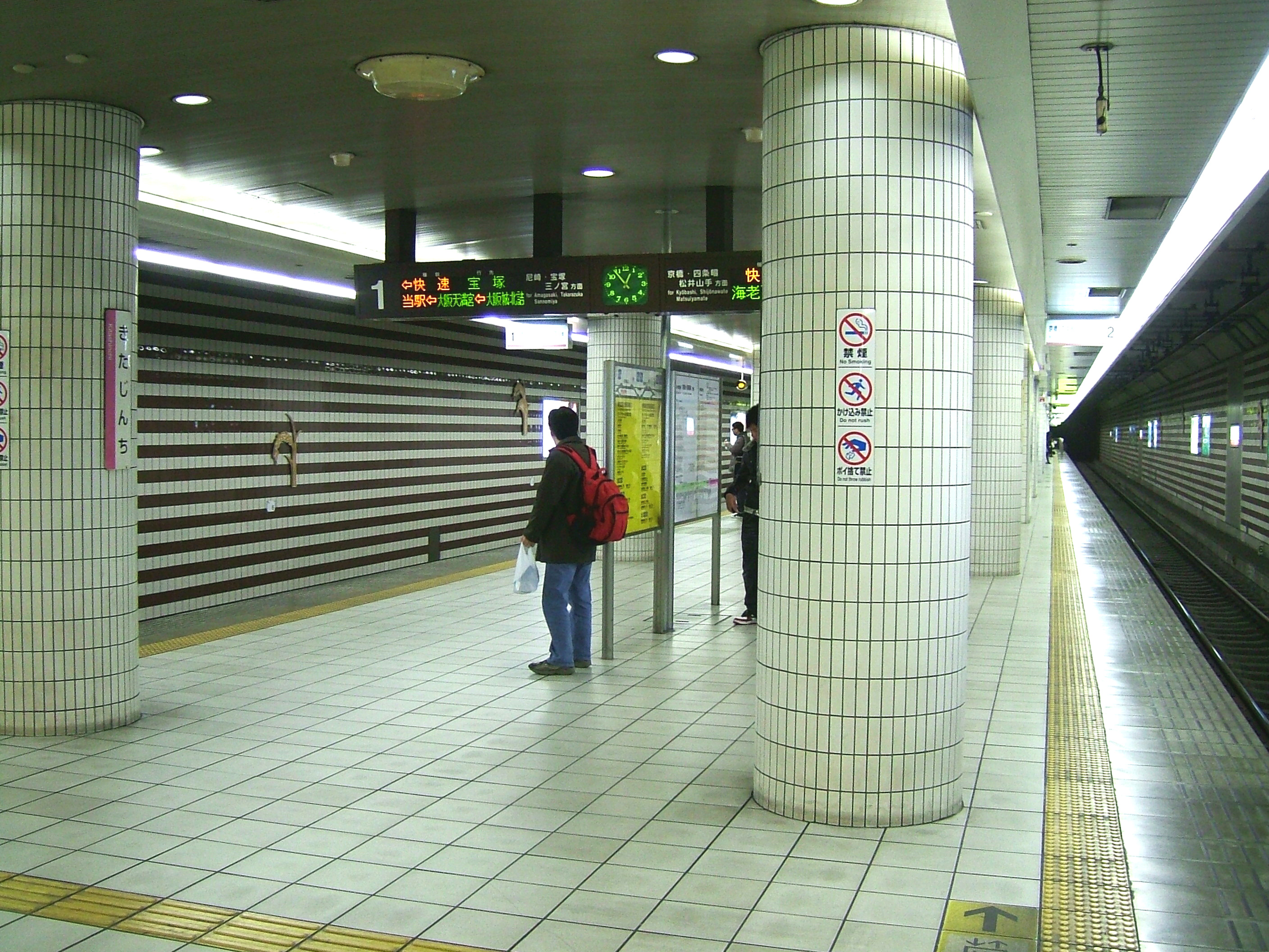 Kitashinchi Station platform (JR Tōzai Line)